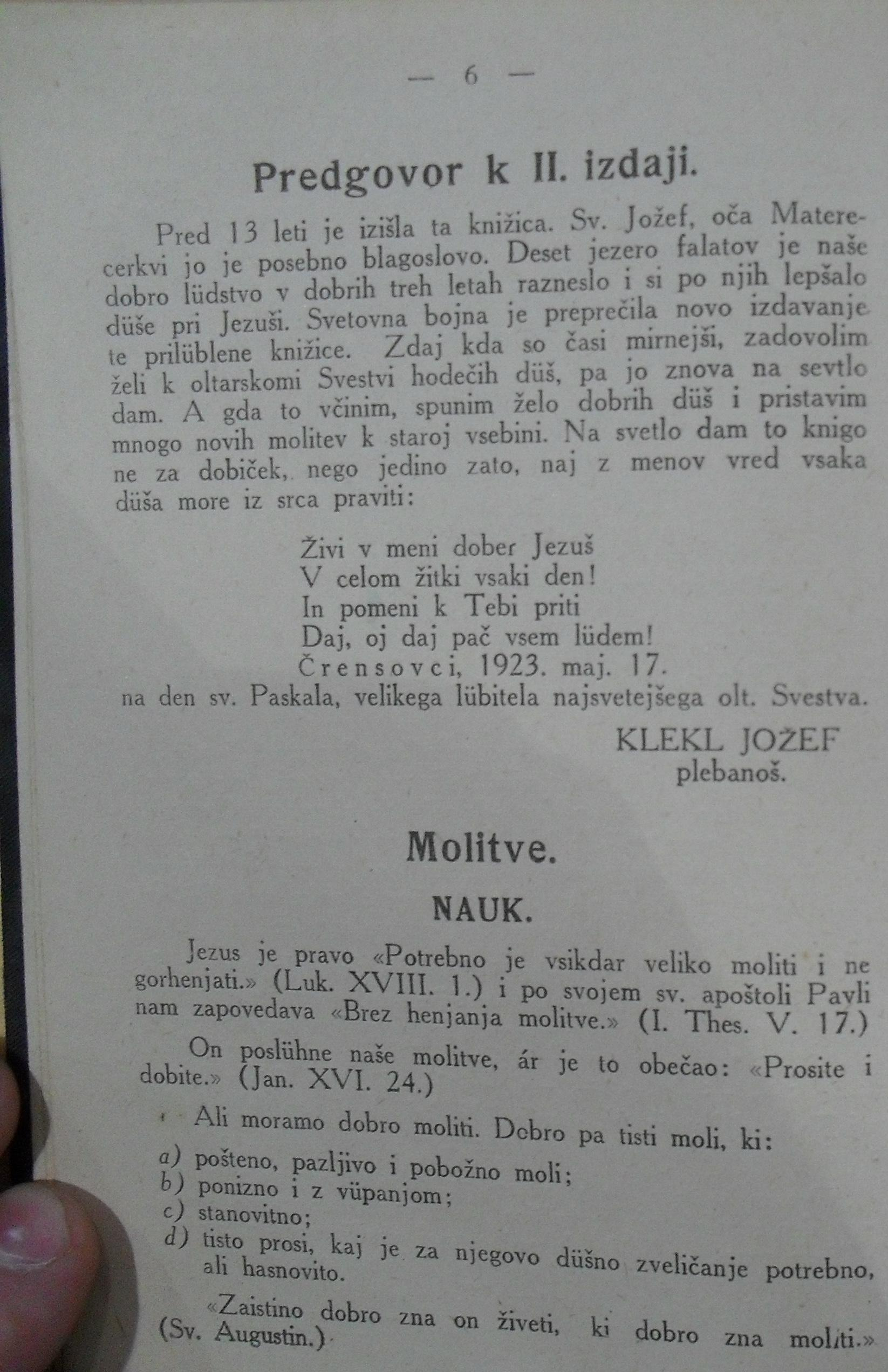 Foreword to the second issue of the Hodi k oltarskomi svesti (1923)